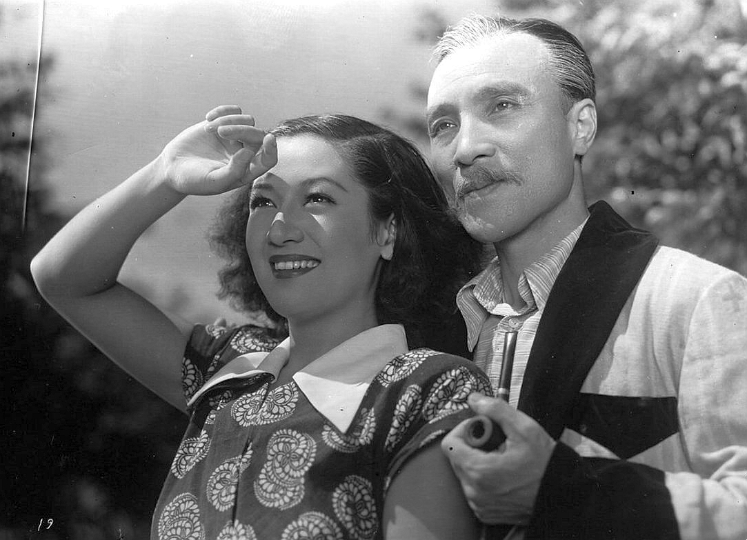 Osamu Takizawa and Setsuko Hara in 1947 Japanese movie Anjō-ke no butōkai（A Ball at the Anjo Hause)